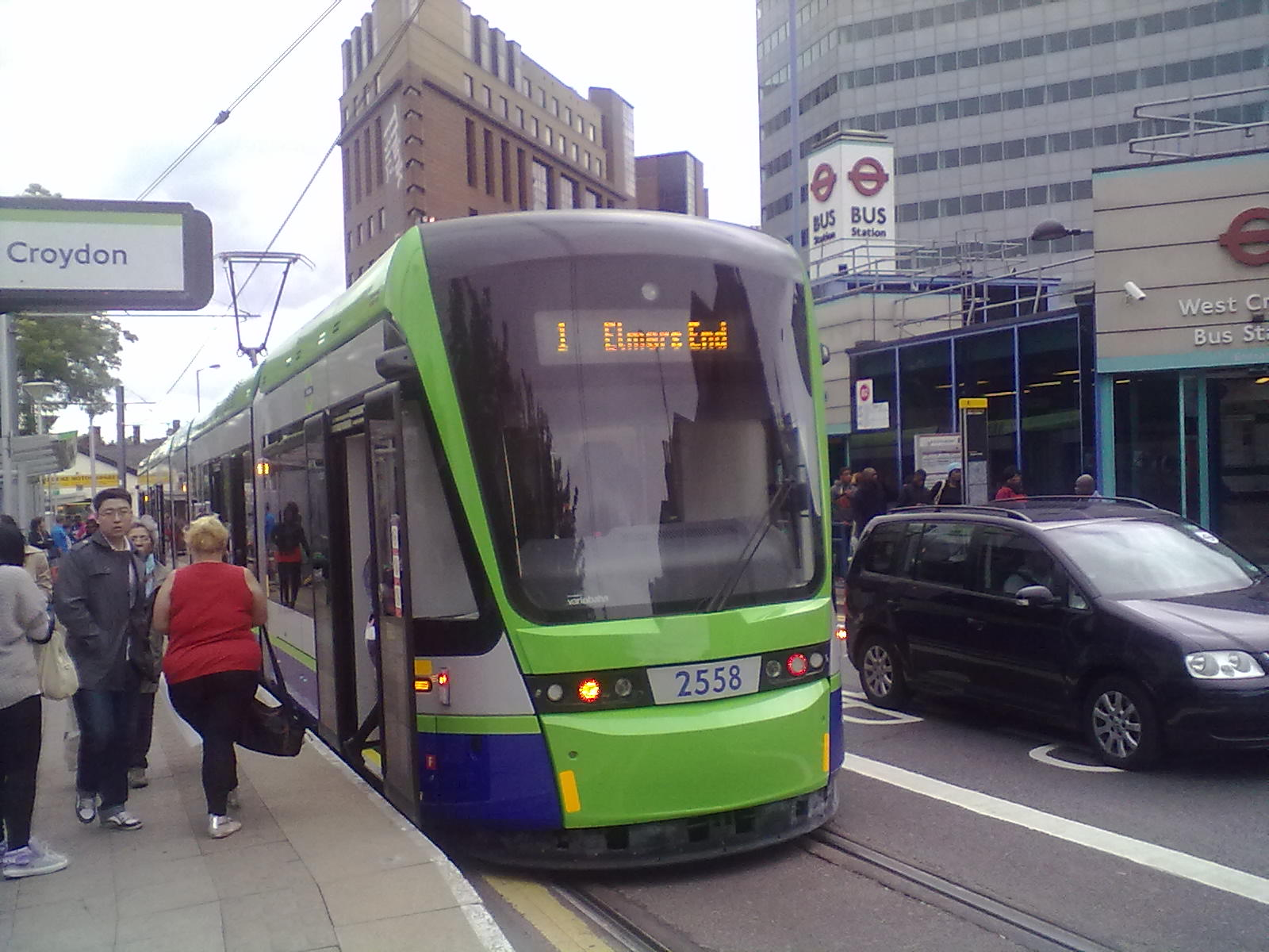 Tram 2558 stops at West Croydon on a service to Elmers End